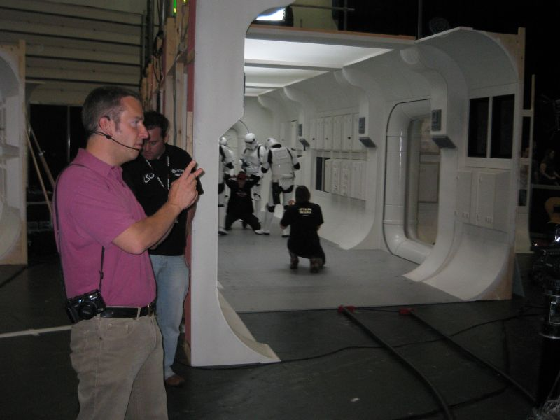 Filming exhibit Star Wars Celebration Europe